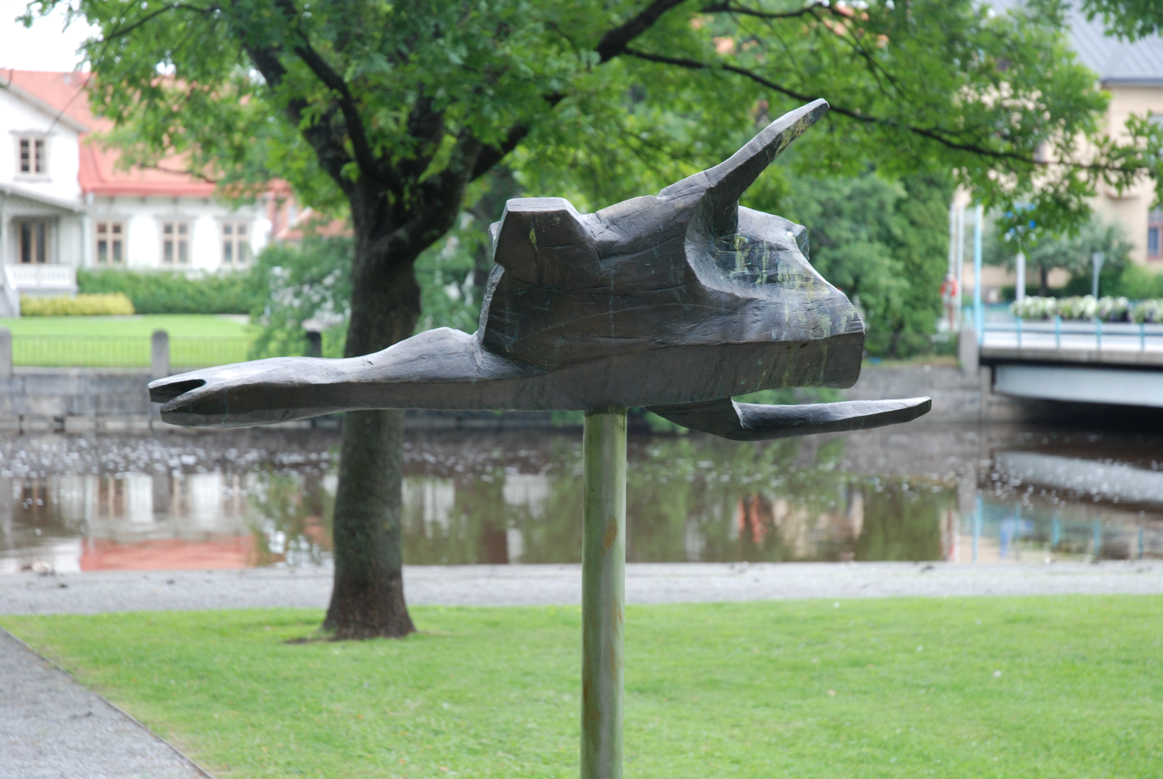 Torsten Renqvists Horisontdykare, Örebro